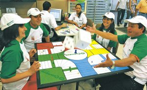 People playing a parqués tournament